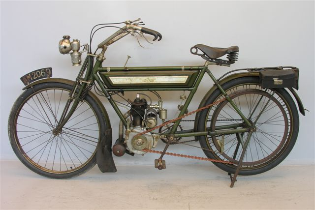 Centaur (Coventry) 200 cc 2 hp side valve motorcycle from 1911